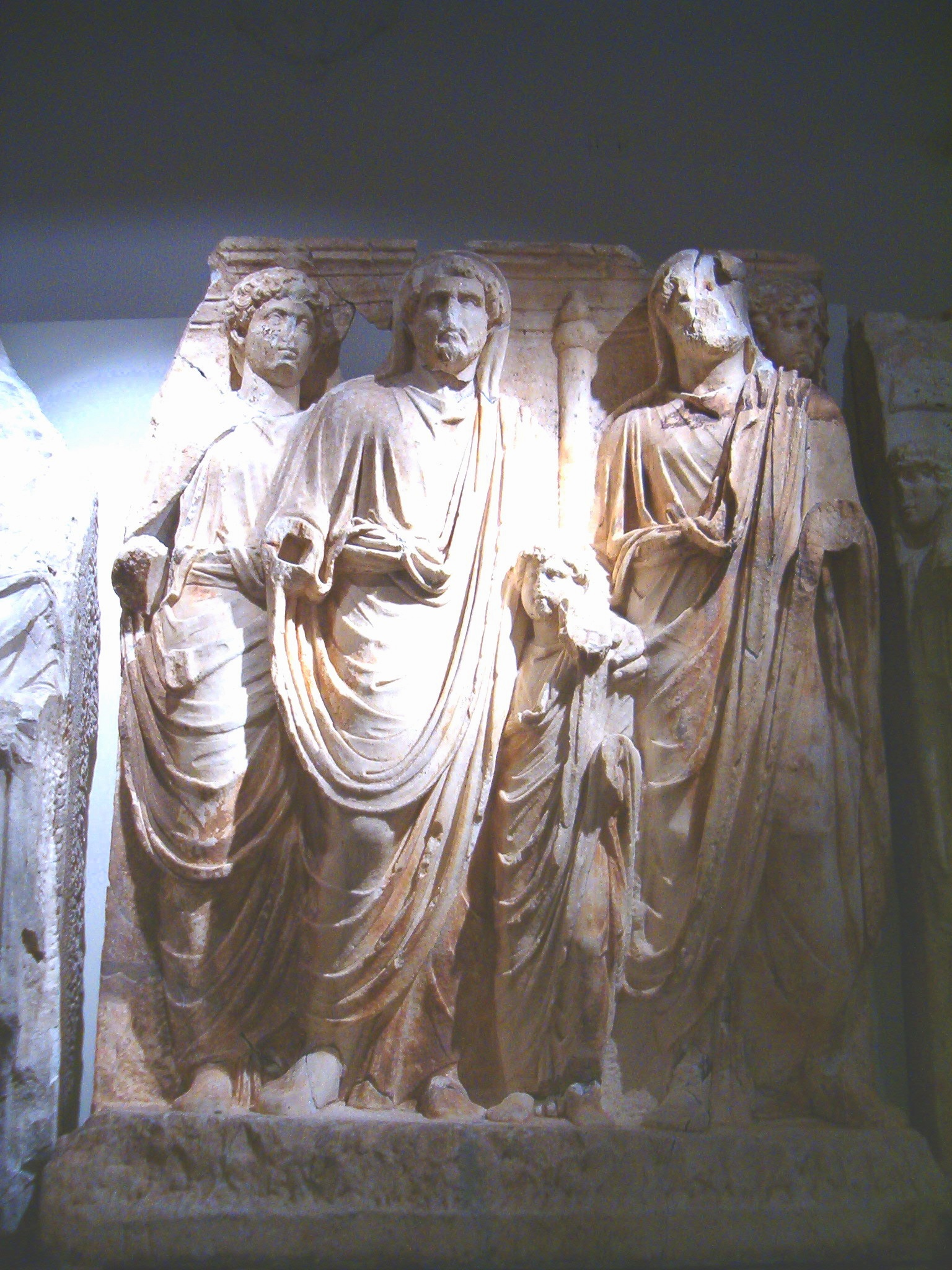 Adoption scene; from Ephesos (Ephesos-Museum, Hofburg, Vienna)